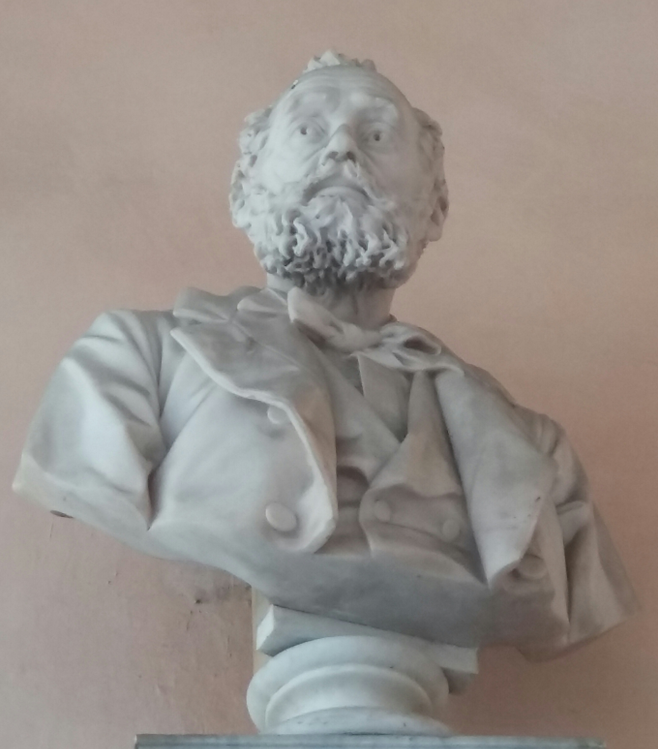 Bust of Federico Campanella